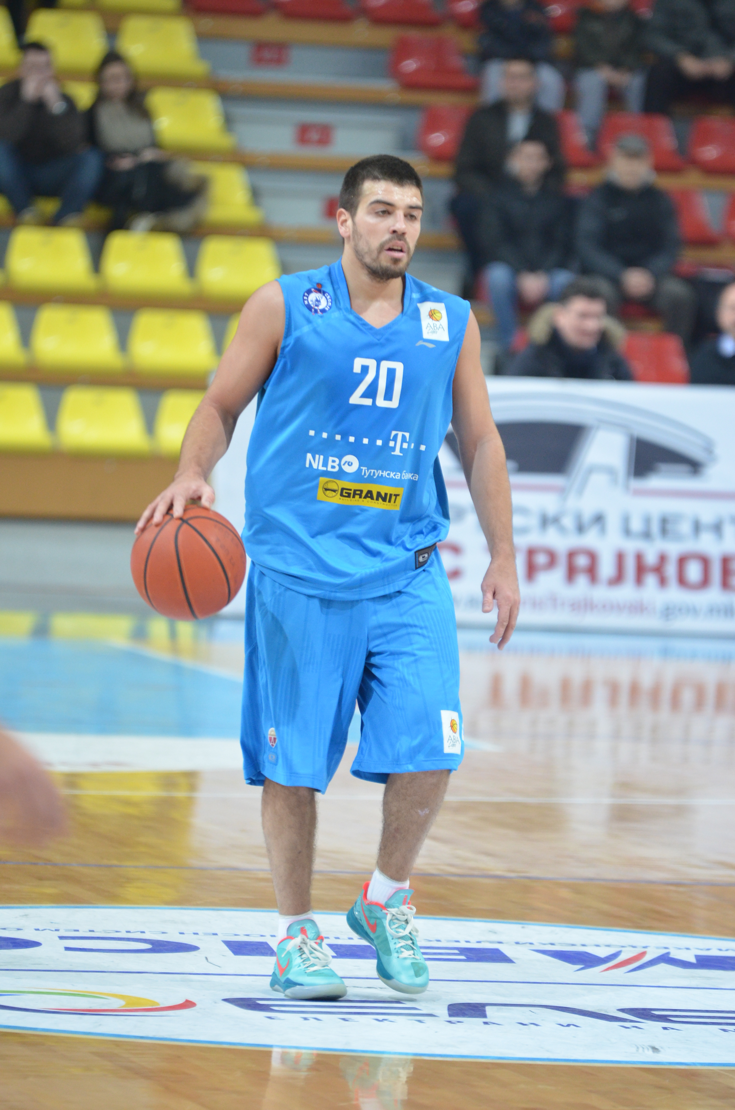 Оташник